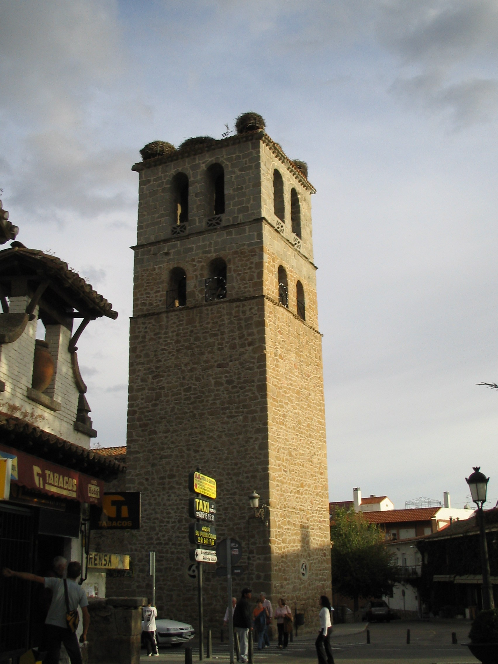 Church of Manzanares el Real, a town in the centre of Spain.